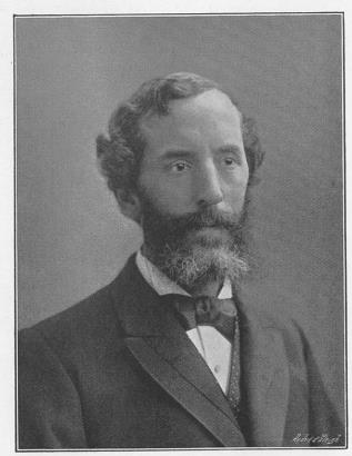 Plate depicting Councillor W J Lancaster J.P., of Birmingham, England, by the photographer J. W. Beaufort of Colmore Row, Birmingham, , from 'Handsworth' magazine, October 1894